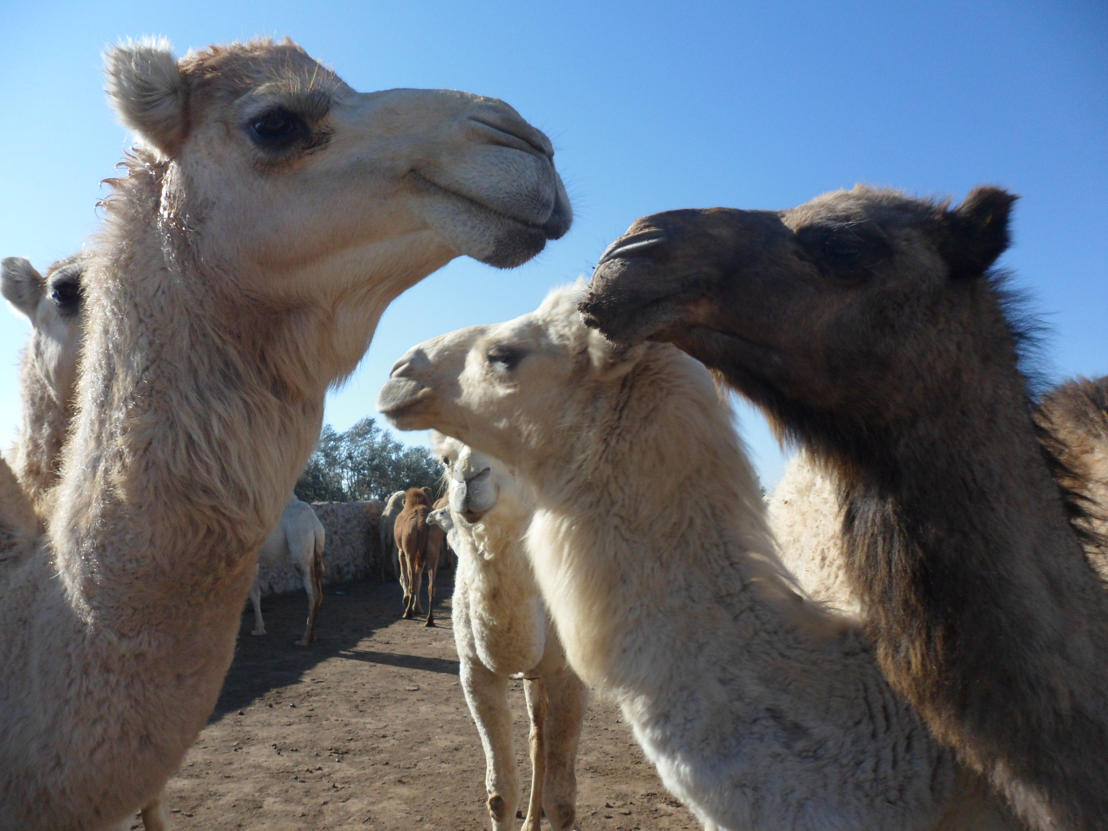 camels at umm el jimal